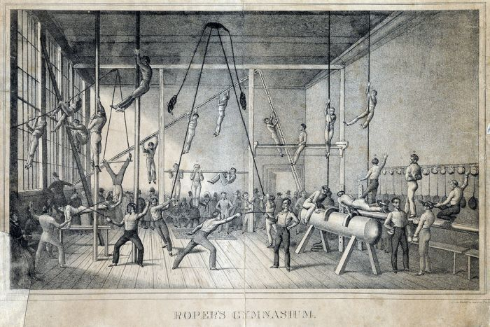 An advertisement for Roper's gymnasium, Philadephia, circa 1831. Note the numerous directions in which the shoulders are exercised; this can help to open up the chest and improve breathing. Note the climbing up the underside of a ladder.